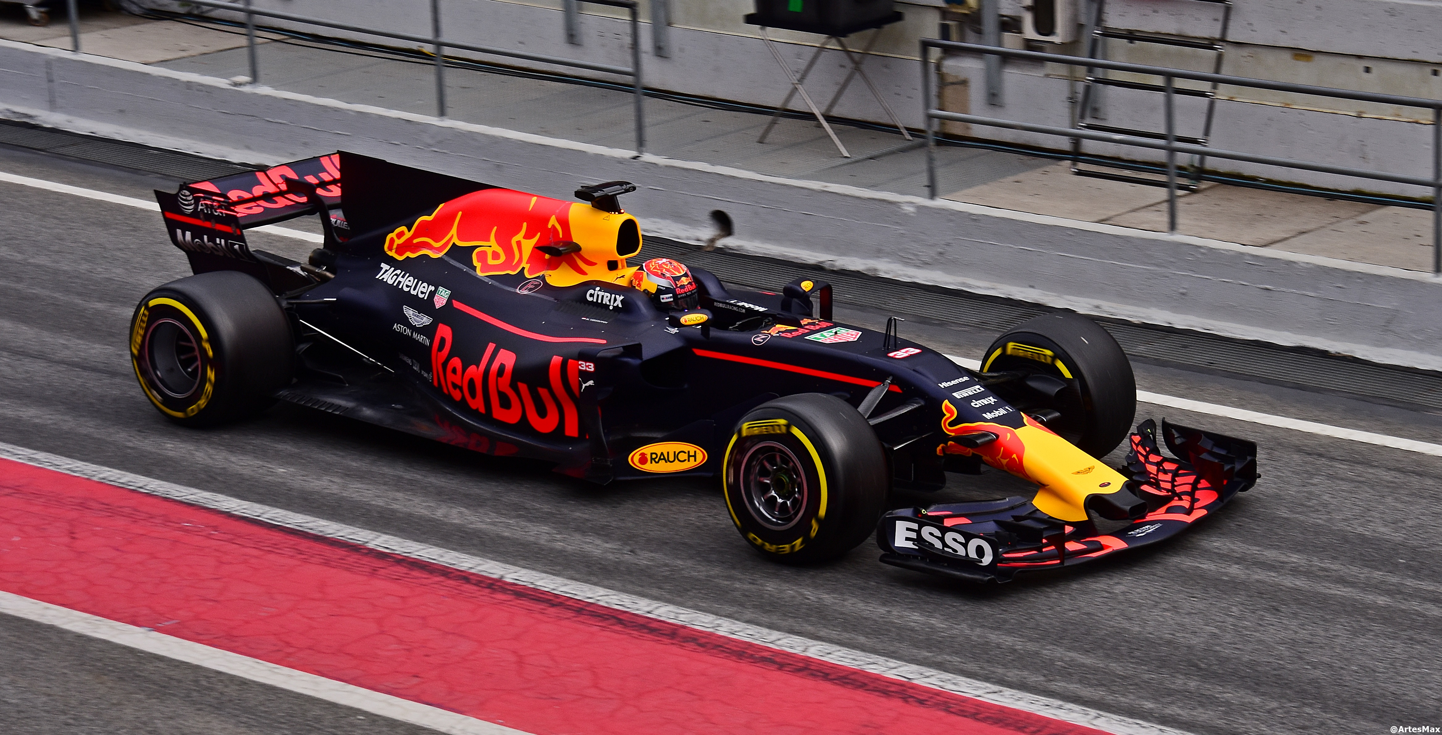 Max Verstappen testing the Red Bull RB13 at Barcelona